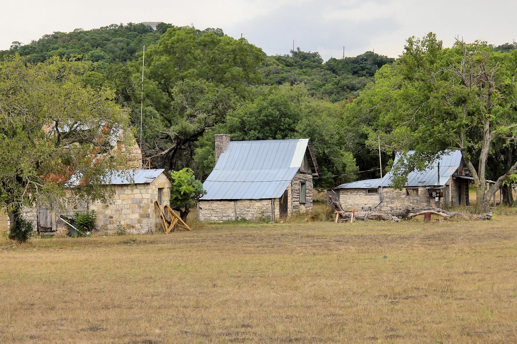 The Plehwe Complex near Leon Springs, Texas, United States. The buildings were listed on the National Register of Historic Places on December 15, 1983.